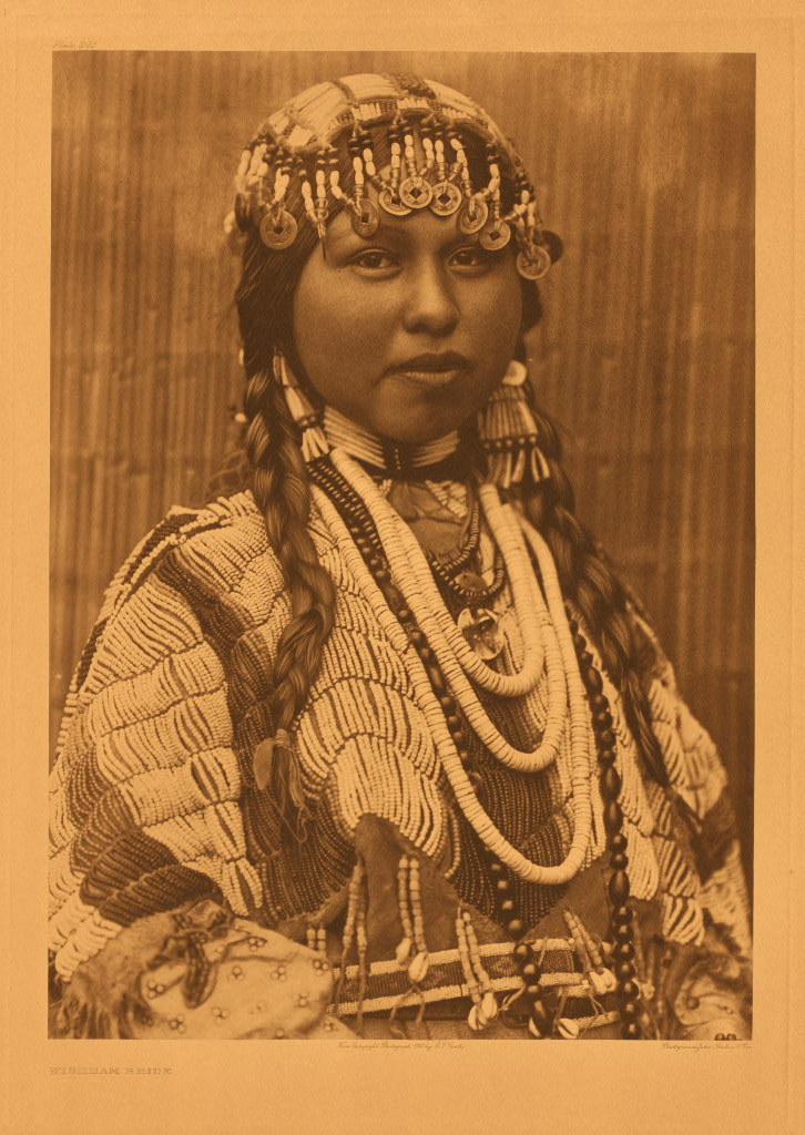 Wishram Bride. Wishram woman, photo by Edward Curtis.